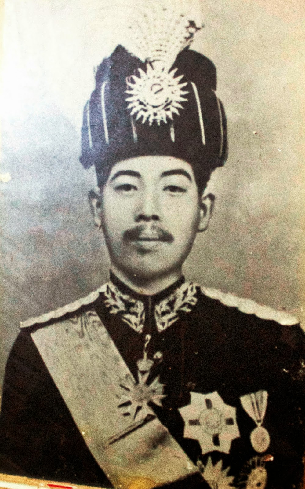 Tuan Lebeh, the crown prince of Reman Kingdom. (June 1899)